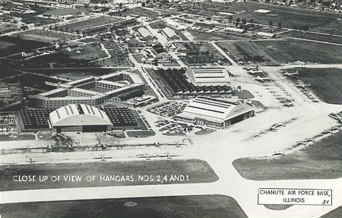 1964 photo of Chanute Air Force Base, highliting the flight line and aircraft hangar area.